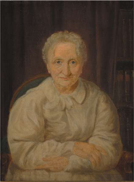 The writer and poet Juliane Marie Jessen (1760-1832), who won a contest for a new Danish national anthem.